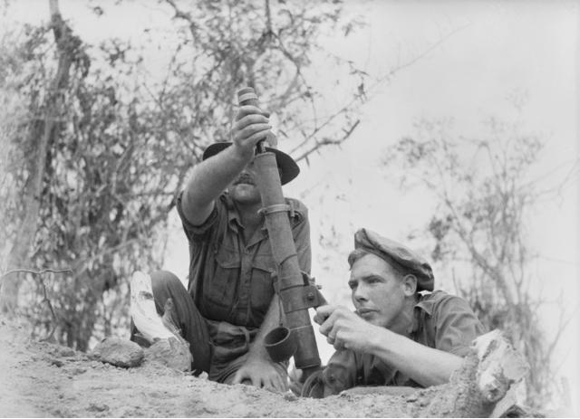 AWM Caption: ULUNKOHOITU, NEW GUINEA, 1945-07-18. PTE J. PLUNKETT (1) AND PTE K.T. BIDDLE (2) MEMBERS OF 8 PLATOON, A COMPANY, 2/6 INFANTRY BATTALION, FIRING A 2-INCH MORTAR TO RETURN FIRE FROM A FRESHLY ESTABLISHED POSITION ON THE FORWARD SLOPES OF ULUNKOHOITU.